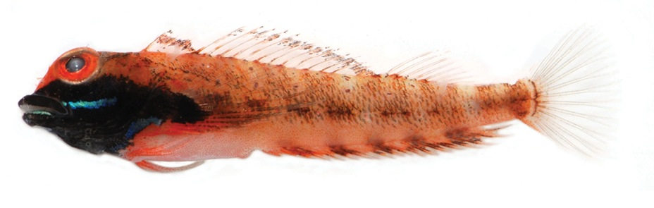 Helcogramma fuscipectoris, NTOU-P 2009-06-063, male, 20.8 mm SL, Chenggong, Taitung, Taiwan.